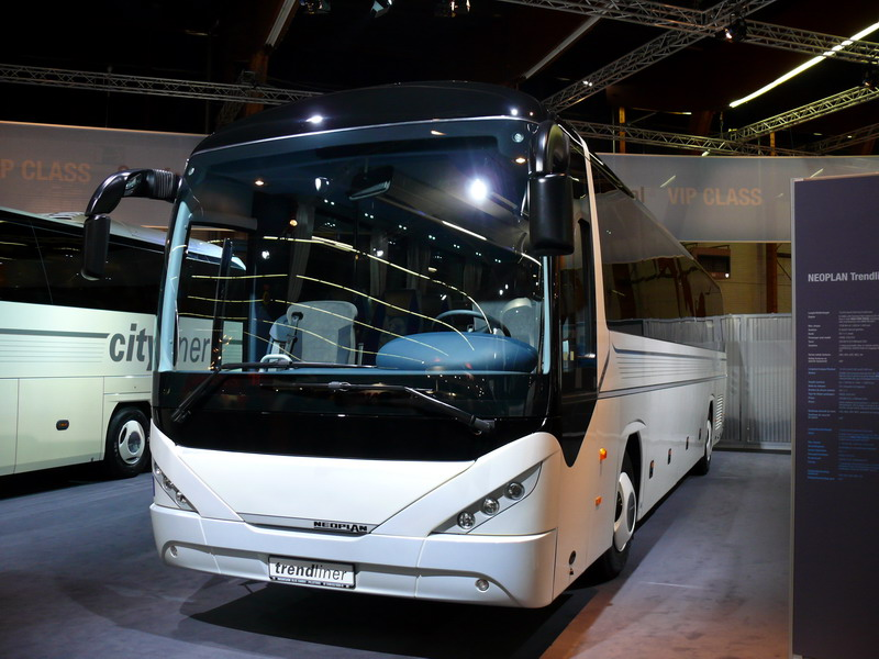 Neoplan Trendliner coach at Busworld 2007